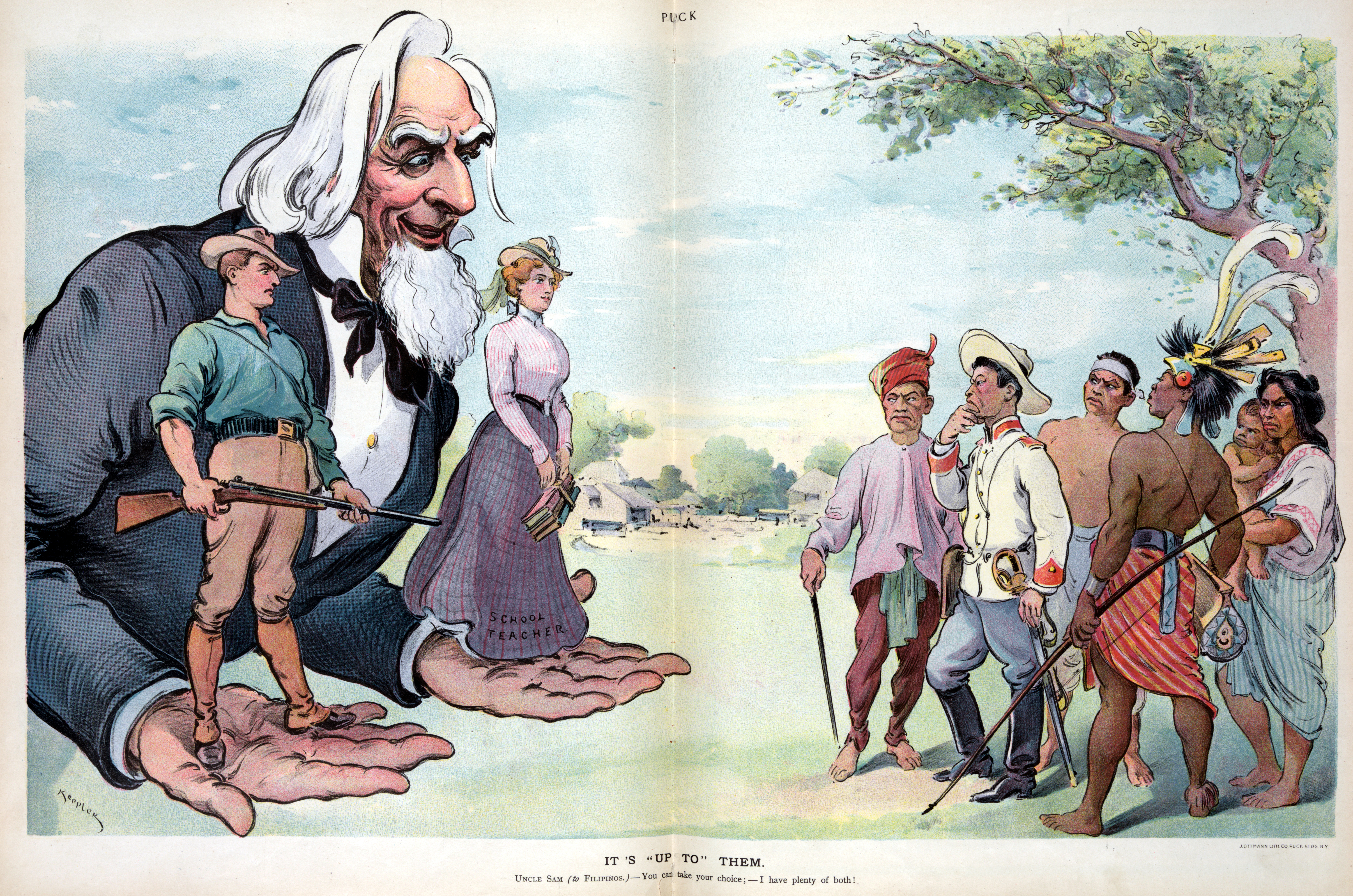 It's "up to" them. Illustration shows Uncle Sam offering on one hand a soldier and on the other a "School Teacher" to a group of reluctant Filipinos, telling them that the choice is theirs.